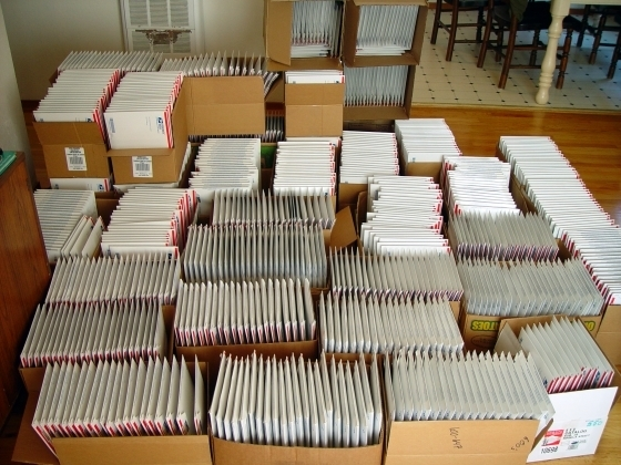 Diamond Trust of London. Released in 2012, the game was developed by Jason Rohrer, with music by Tom Bailey. The game and its supporting assets have been released into the public domain and is hosted on SourceForge at This photograph shows the packaged cartridges in Rohrer's home, awaiting shipping to the Kickstarter backers. It was released into the public domain as part of the Kickstarter project as declared at